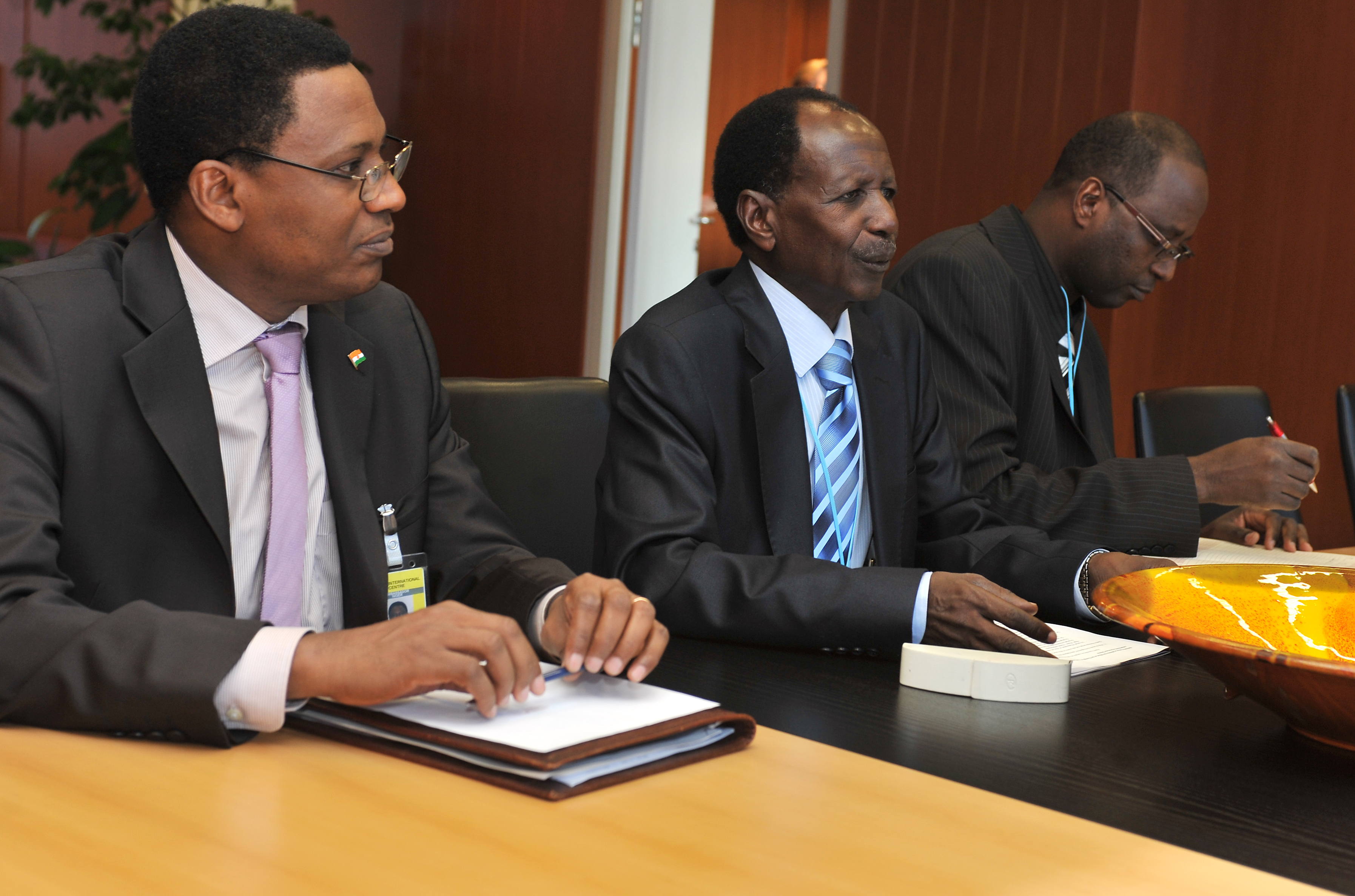 Bilateral meeting between HE Mr Foumakoye Gado, Minister of Mines and Energy of Niger and IAEA Director General Yukiya Amano during the Ministerial Conference on Nuclear Safety. IAEA, Vienna, Austria, 22 June 2011 Copyright: IAEA Imagebank Photo Credit: Dean Calma / IAEA